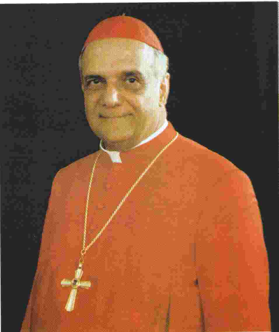 Raphael I Bidawid (1922-2003) former patriarch of the Chaldean Catholic Church.